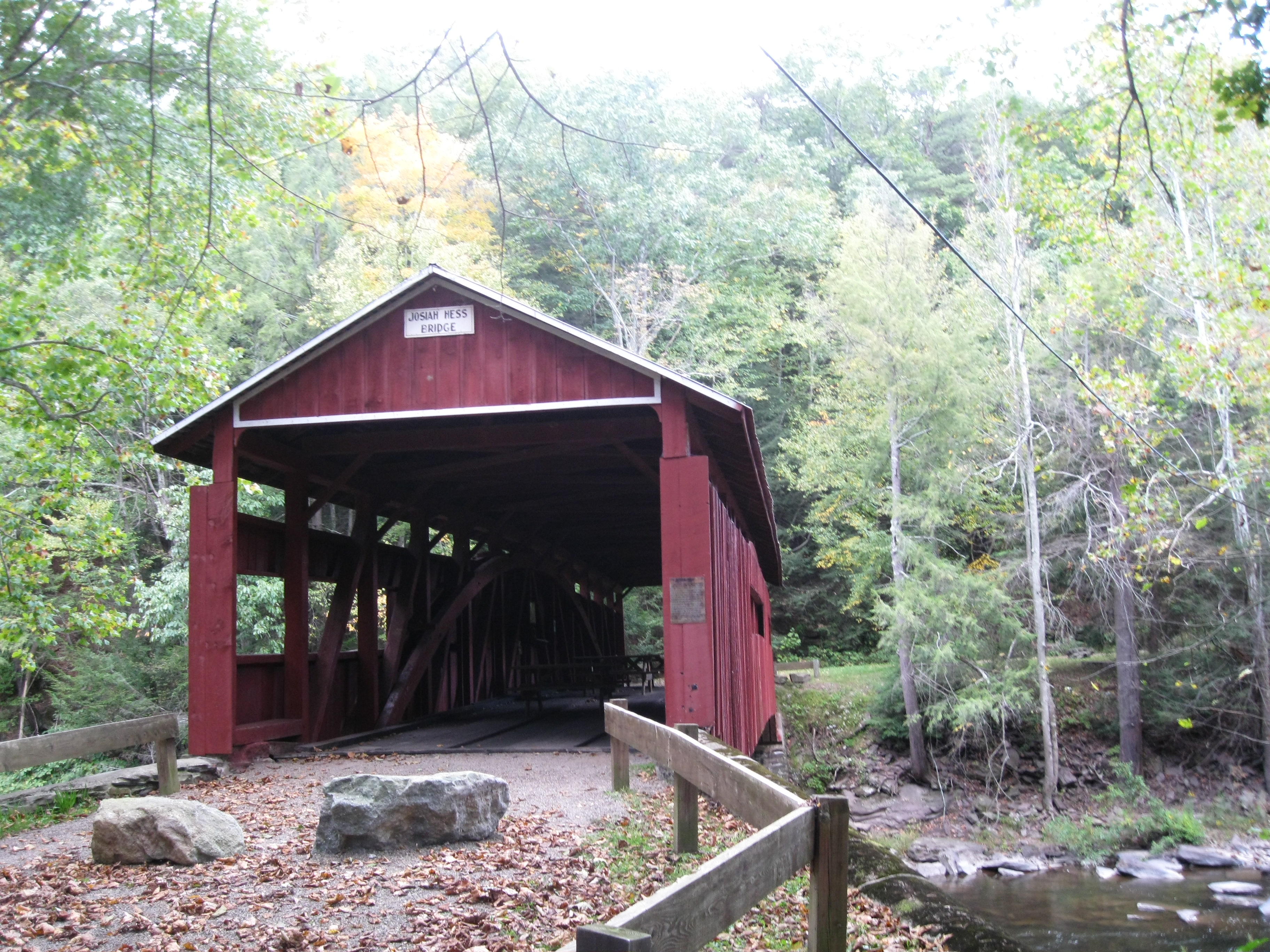 Josiah Hess Covered Bridge No. 122 built in 1875 over Huntington Creek in Fishing Creek Township in Columbia County, Pennsylvania in the United States.